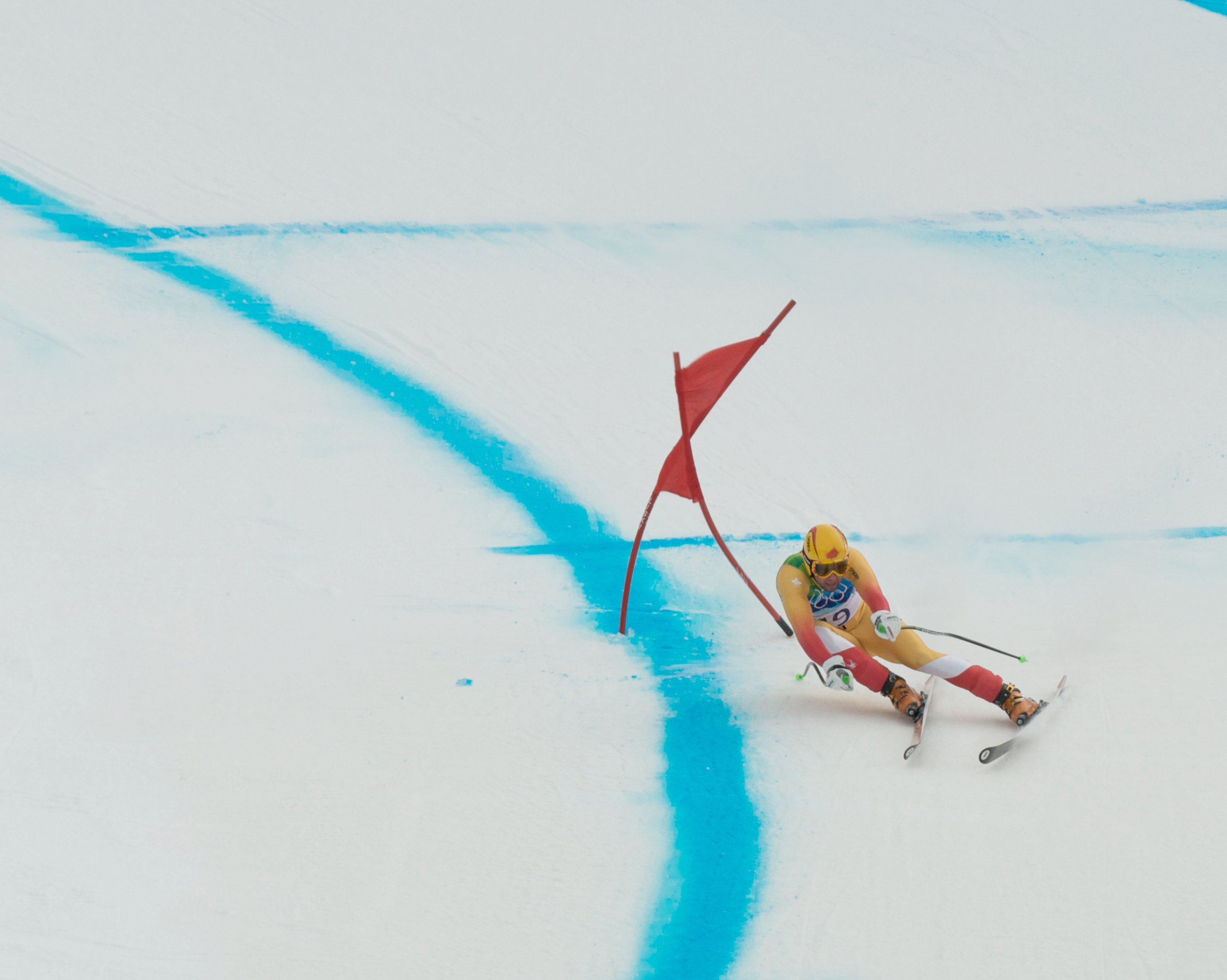 Manuel Osborne-Paradis at the Downhill competition at the 2010 Winter Olympics